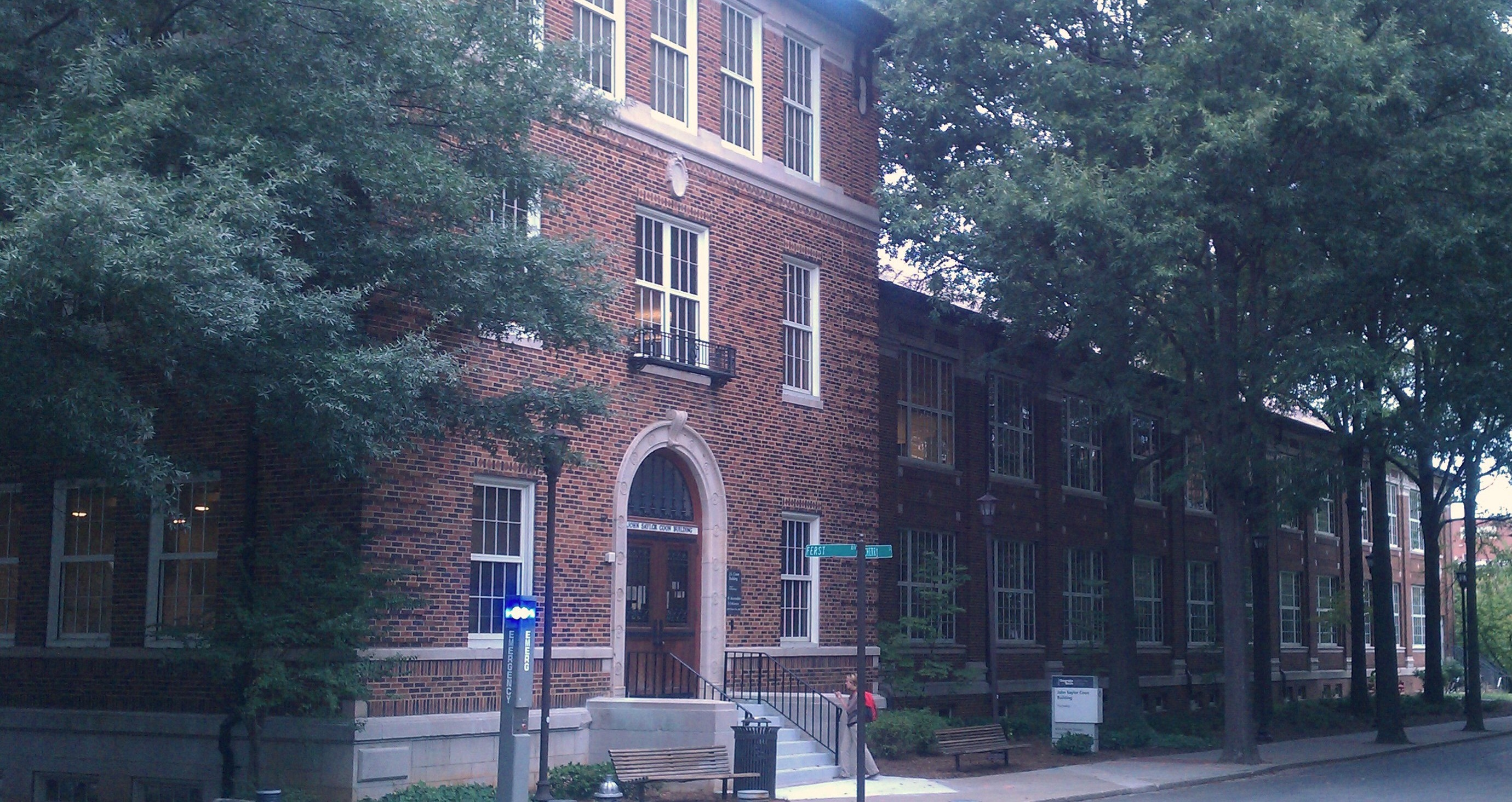 John Saylor Coon Building